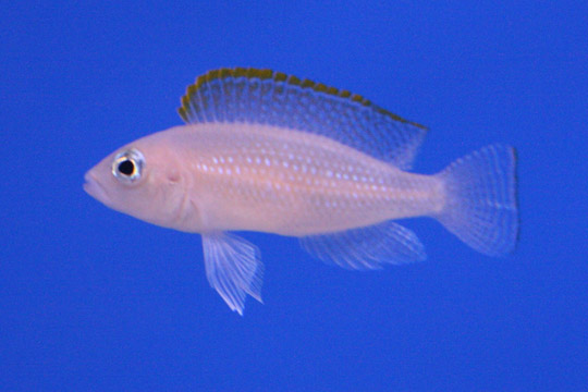 A small cichlid Neolamprologus caudopunctatus "Kapampa" at the 20th Pramong Nomklao fish show event at the Future Park Rangsit, Thailand, in July 2008. Picture taken by myself.